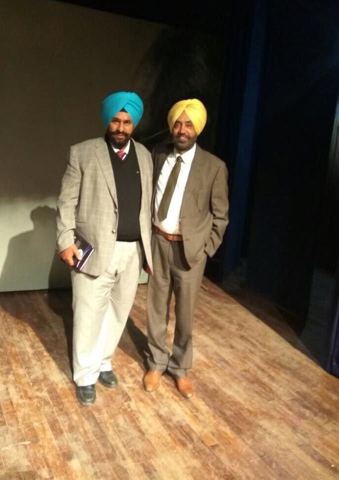 Punjabi writers Gurbhajan Gill and Harvinder Singh after a literary function in Ludhyana